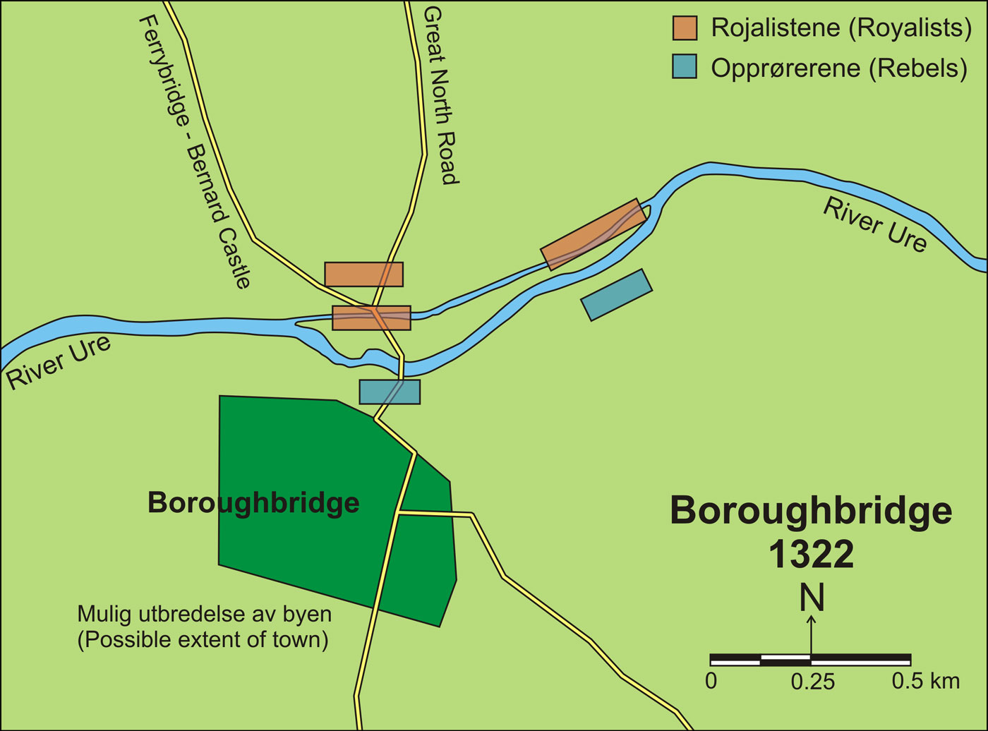 Kart over slaget ved Boroughbridge, 1322 (Map of Battle of Boroughbridge, 1322)